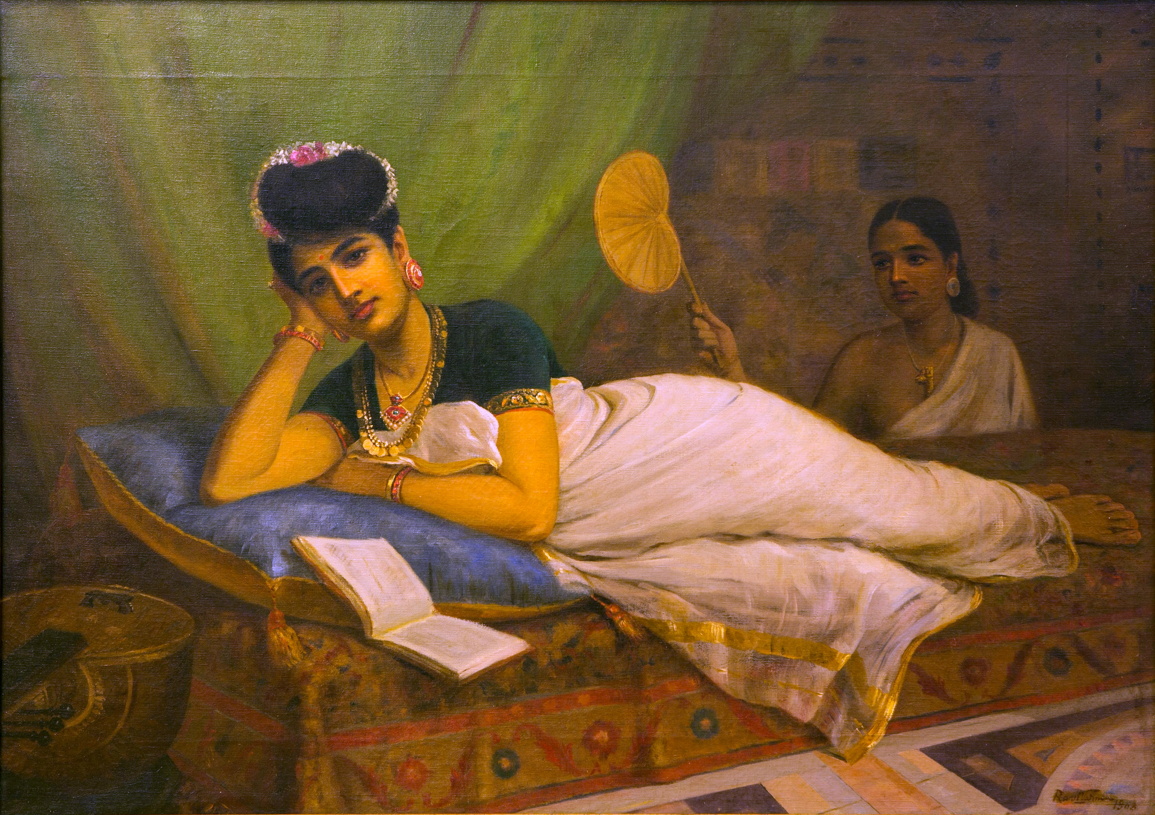 A Reclining Nayar lady on a velvet couch with a book open in front of her. [2]